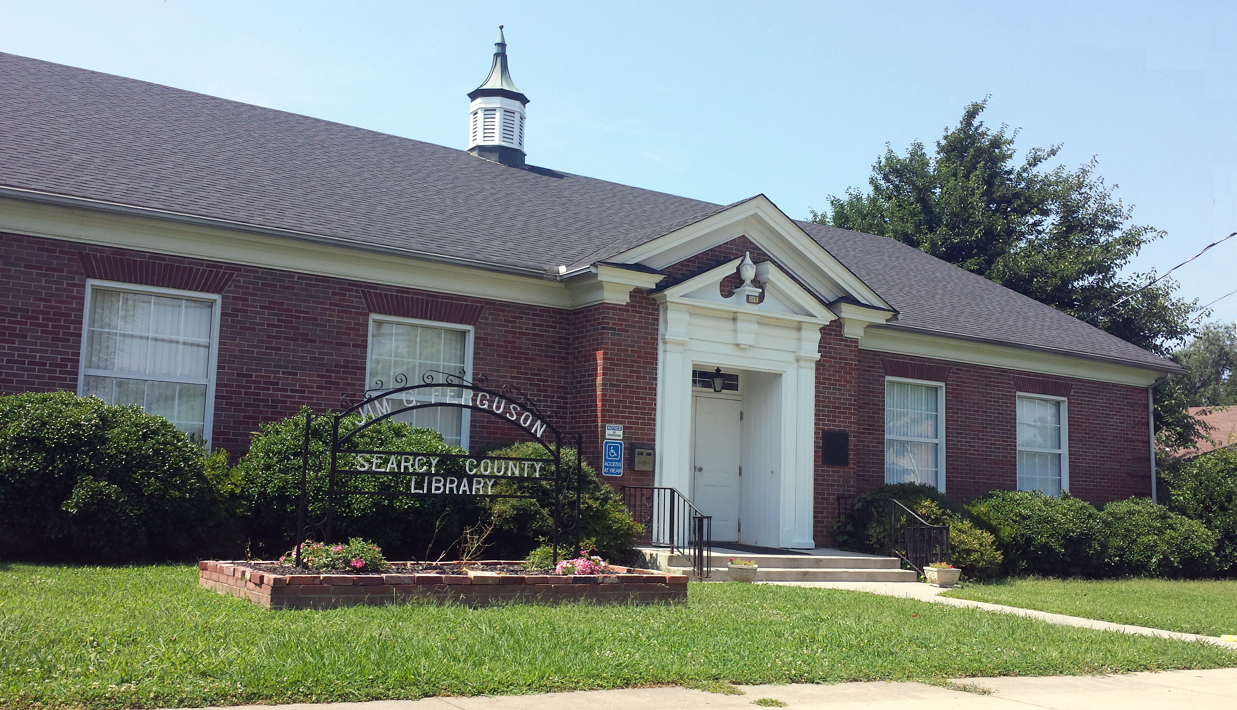 Downtown Marshall, Arkansas